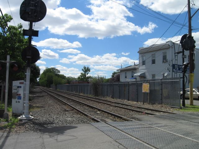 The former Long Island Rail Road Glendale station in June 2014, 16 years after its closing